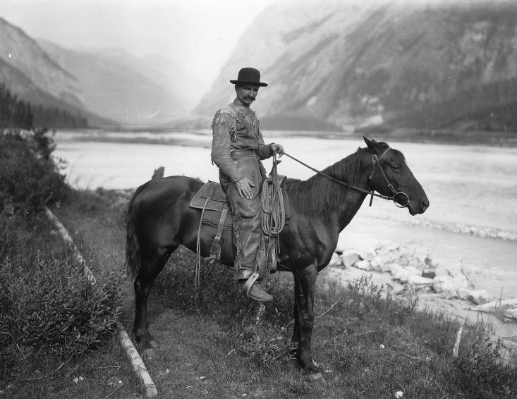 Cowboy on a horse in Field, British Columbia, Canada.